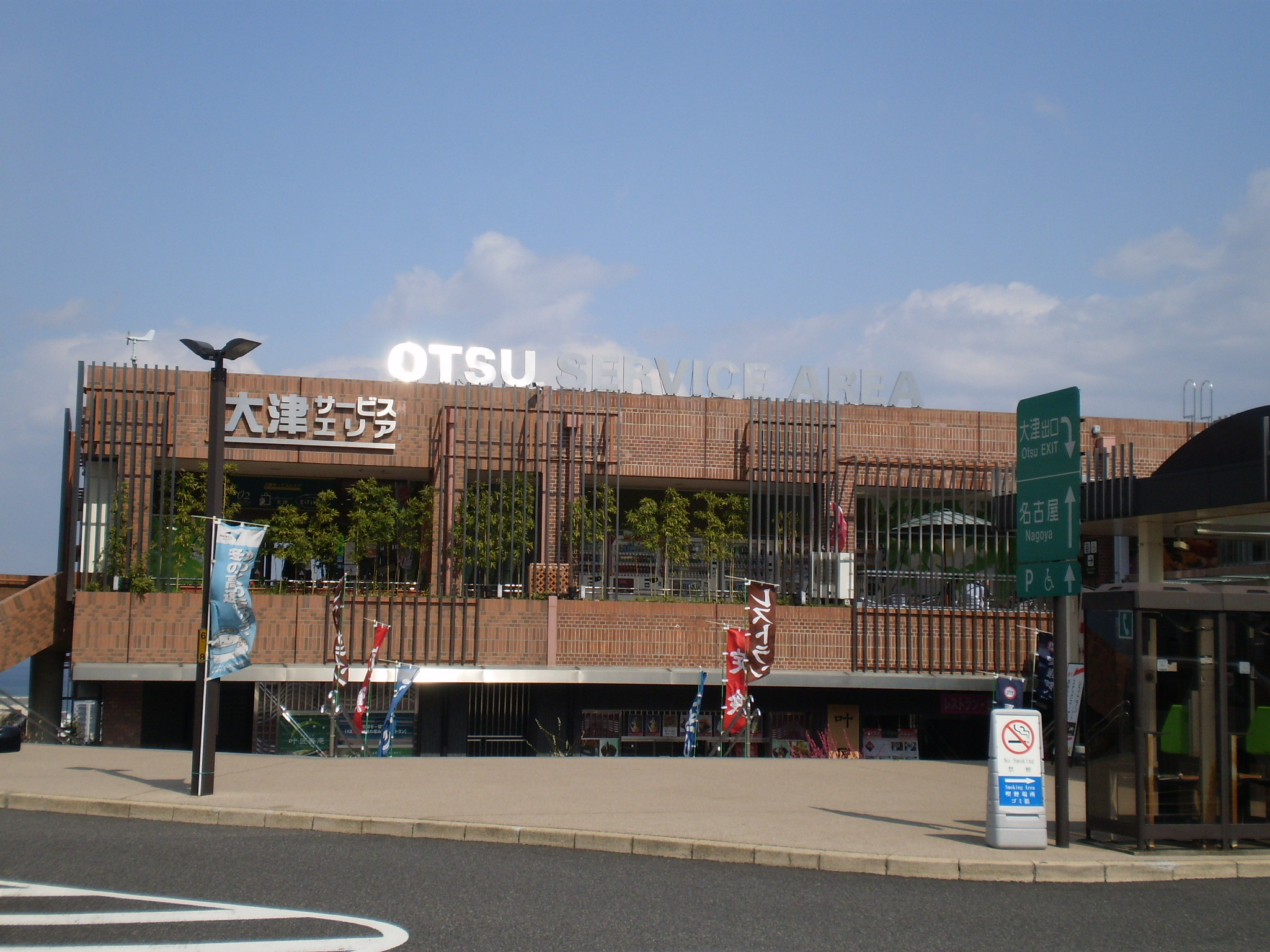 Otsu Service area of Meishin Expressway I took this image at 2Chome Asahigaoka Otsu City Shiga Pref., Japan.